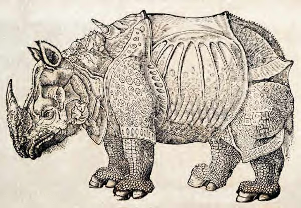 This woodcut, based on the 1515 woodcut by Dürer, is an illustration from the book The history of four-footed beasts and serpents by Edward Topsell, printed by E. Cotes for G. Sawbridge, T. Williams and T. Johnson in London in 1658.